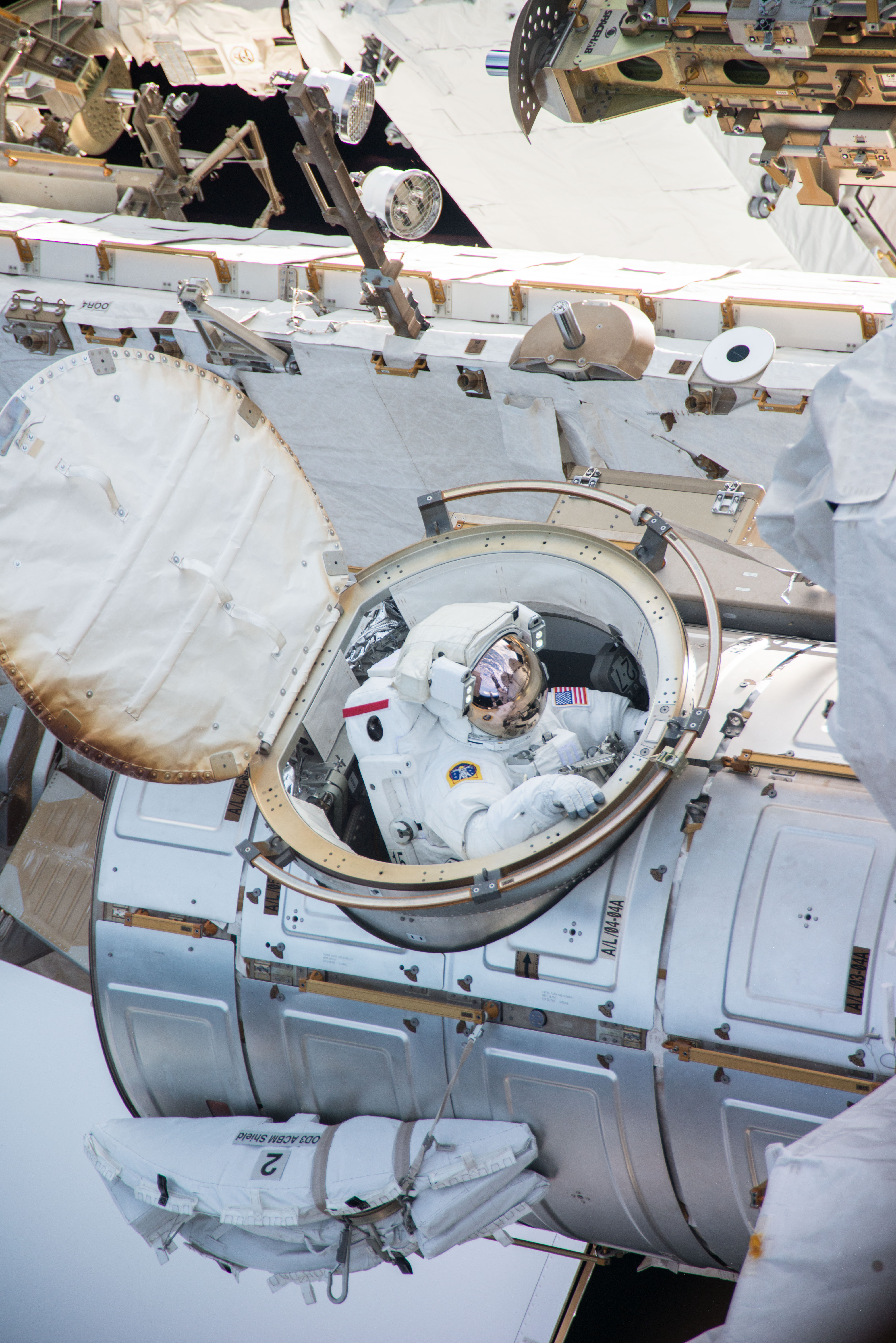 NASA astronaut Shane Kimbrough is photographed during a spacewalk in January 2017. During the nearly six hour spacewalk, the two astronauts successfully installed three new adapter plates and hooked up electrical connections for three of the six new lithium-ion batteries on the International Space Station. Astronauts were also able to accomplish several get-ahead tasks including stowing padded shields from Node 3 outside of the station to make room inside the airlock and taking photos to document hardware for future spacewalks.